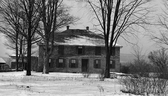 Louis Bevier House, State Route 213 Vicinity, Marbletown (Ulster County, New York) cropped This file comes from the Historic American Buildings Survey (HABS), Historic American Engineering Record (HAER) or Historic American Landscapes Survey (HALS). These are programs of the National Park Service established for the purpose of documenting historic places. Records consist of measured drawings, archival photographs, and written reports. When reusing please credit: Library of Congress, Prints & Photographs Division, NY,56-MARB,1-1 This tag does not indicate the copyright status of the attached work. A normal copyright tag is still required. See Commons:Licensing for more information. This work is in the public domain in the United States because it is a work prepared by an officer or employee of the United States Government as part of that person’s official duties under the terms of Title 17, Chapter 1, Section 105 of the US Code. See Copyright. Note: This only applies to original works of the Federal Government and not to the work of any individual U.S. state, territory, commonwealth, county, municipality, or any other subdivision. This template also does not apply to postage stamp designs published by the United States Postal Service since 1978. (See § 313.6(C)(1) of Compendium of U.S. Copyright Office Practices). It also does not apply to certain US coins; see The US Mint Terms of Use. This file has been identified as being free of known restrictions under copyright law, including all related and neighboring rights. Object location41° 53′ 25″ N, 74° 06′ 11″ W